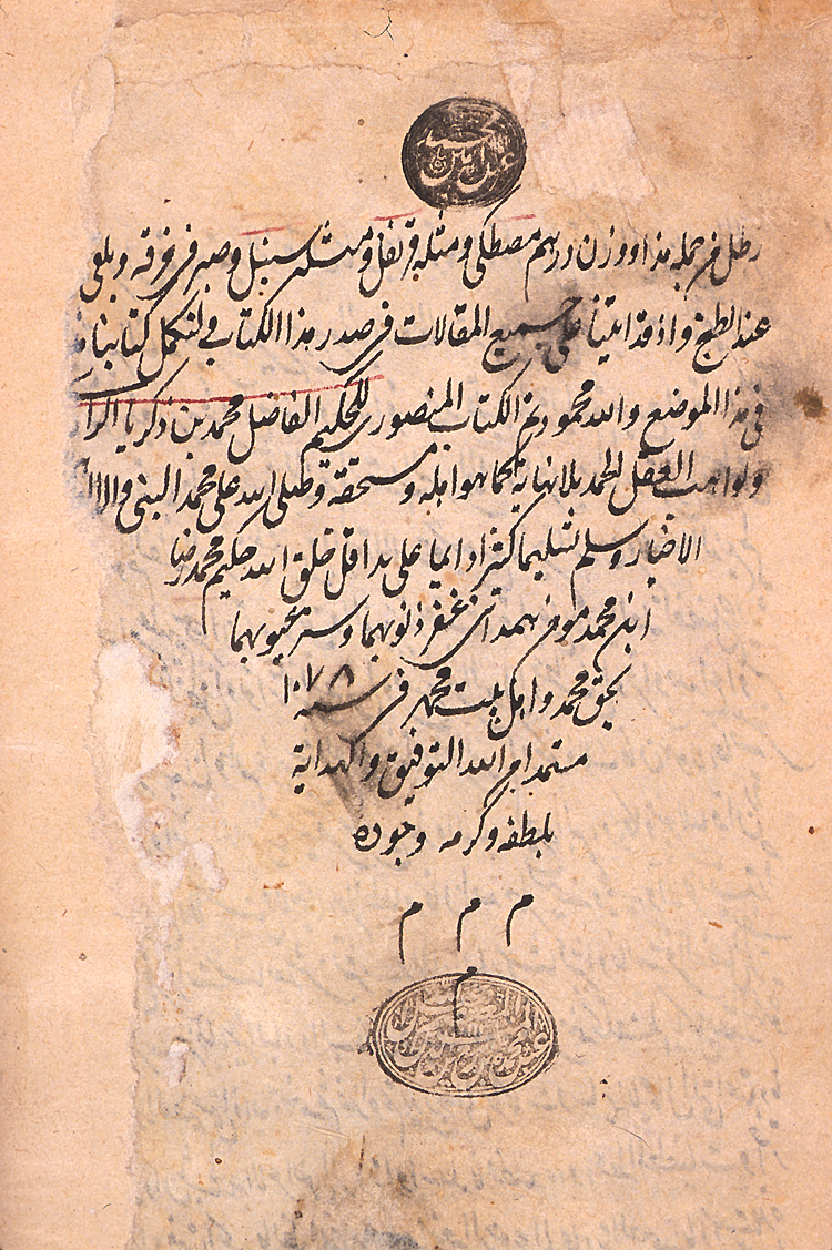 As reproduced in the frontispiece to McCarthy's Freedom and Fulfillment (Boston: Twayne, 1980)